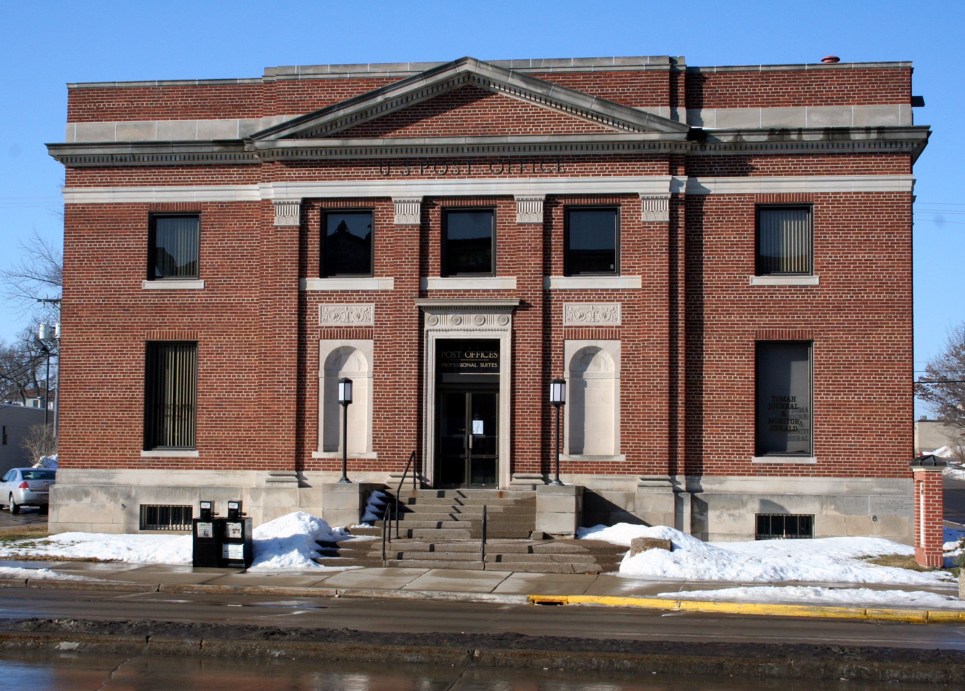 Historic former Post Office in at 903 Superior Avenue in Tomah, Monroe County, Wisconsin. A corner stone has 1927, A. W. Mellon Secretary of the Treasury, James A. Wetmore acting supervising architect.